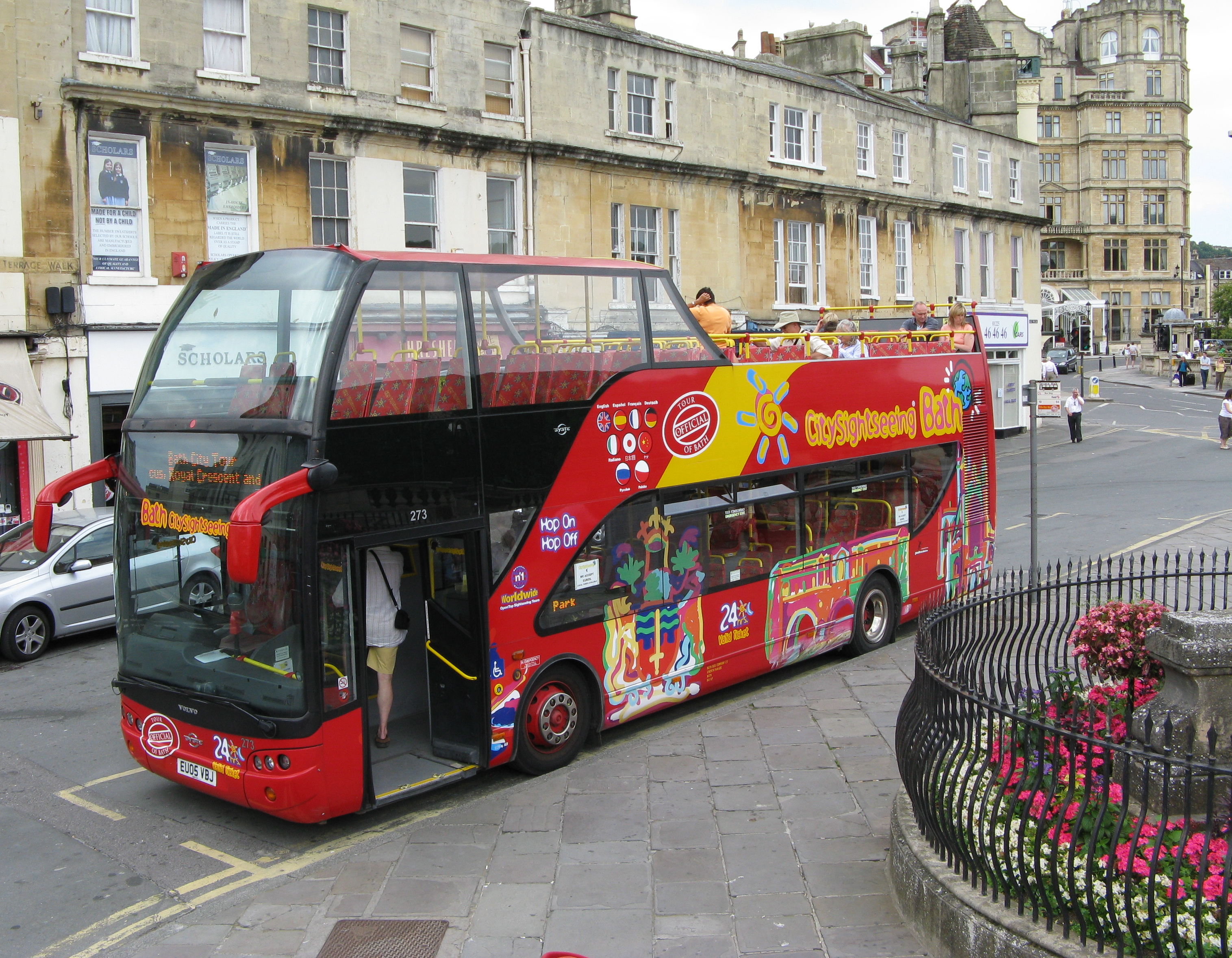 City Sightseeing's 273 (EU05 VBJ), a Volvo B7L/Ayats Bravo City, in Bath, Somerset, England. Unlike many City Sigthseeing tours which are run under frachicse to other operators, this one is run directly by the company themseleves.